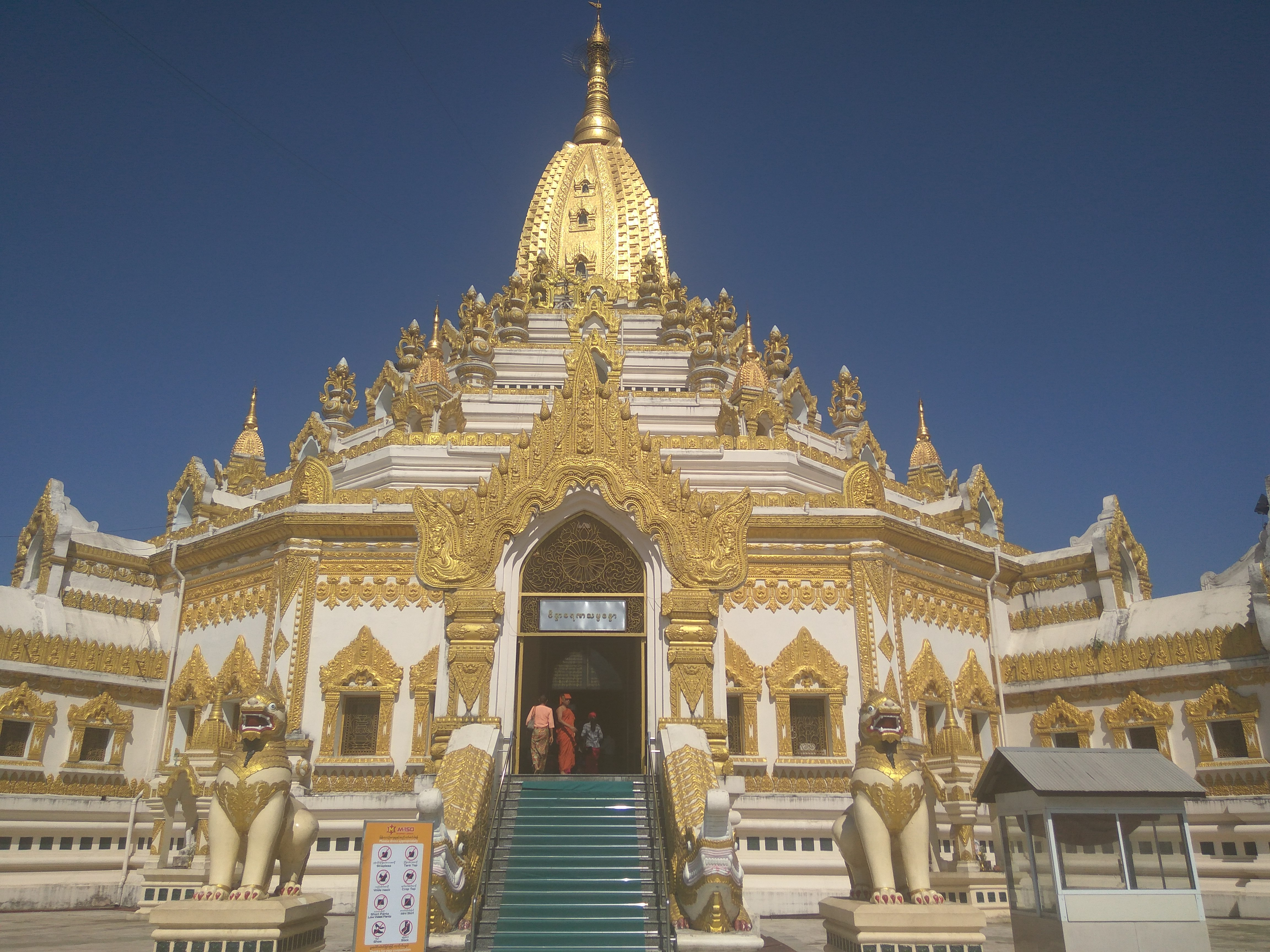 Swe Taw Myat Stupa မြန်မာဘာသာ: စွယ်တော်မြတ်စေတီတော်။ ရန်ကုန်မြို့တွင် တည်ရှိသည်။